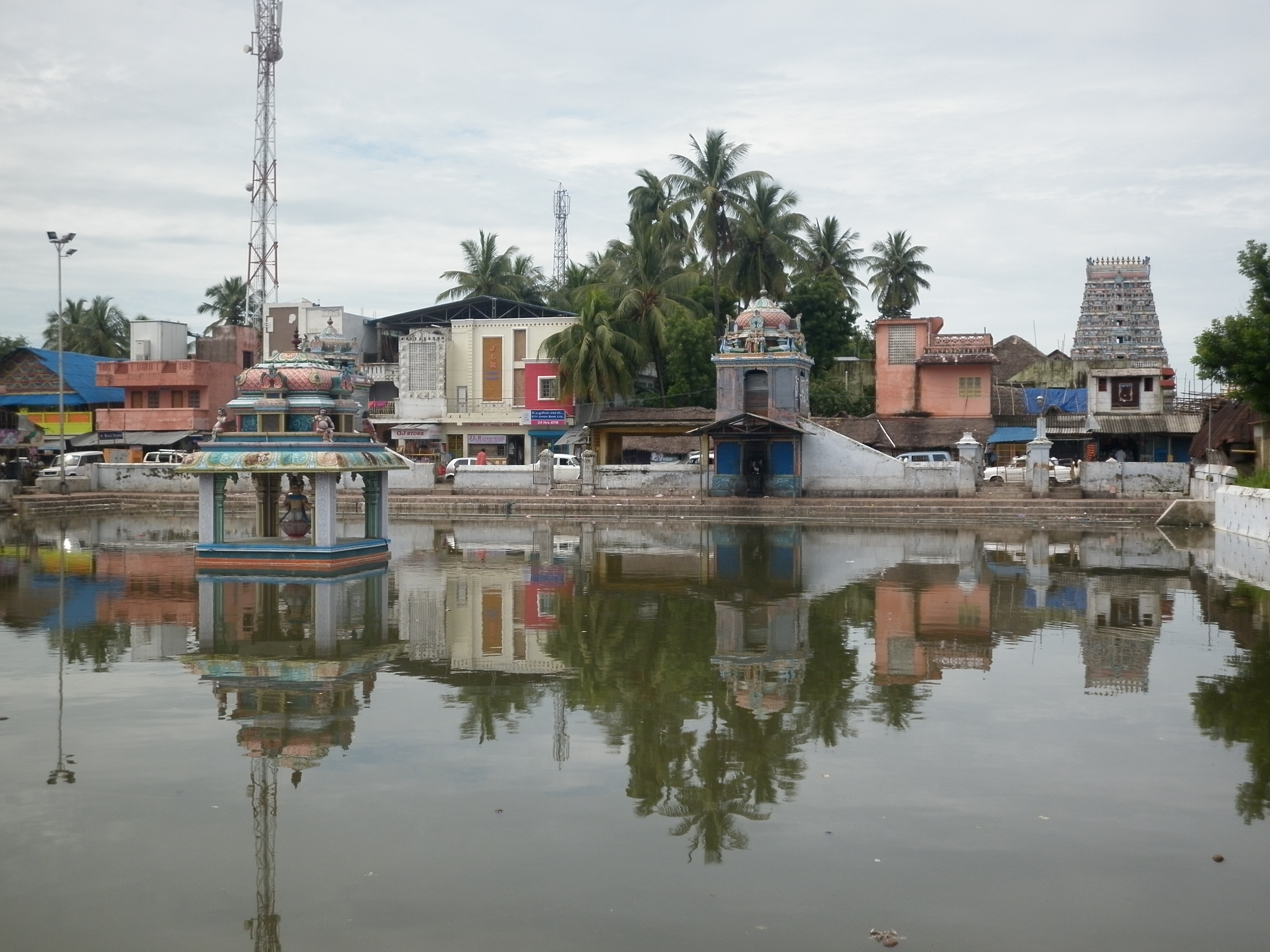 Tirunallar Dharbaranyeswarar Temple and its tank, located in Tirunallar, which is part of Pondicherry, India.